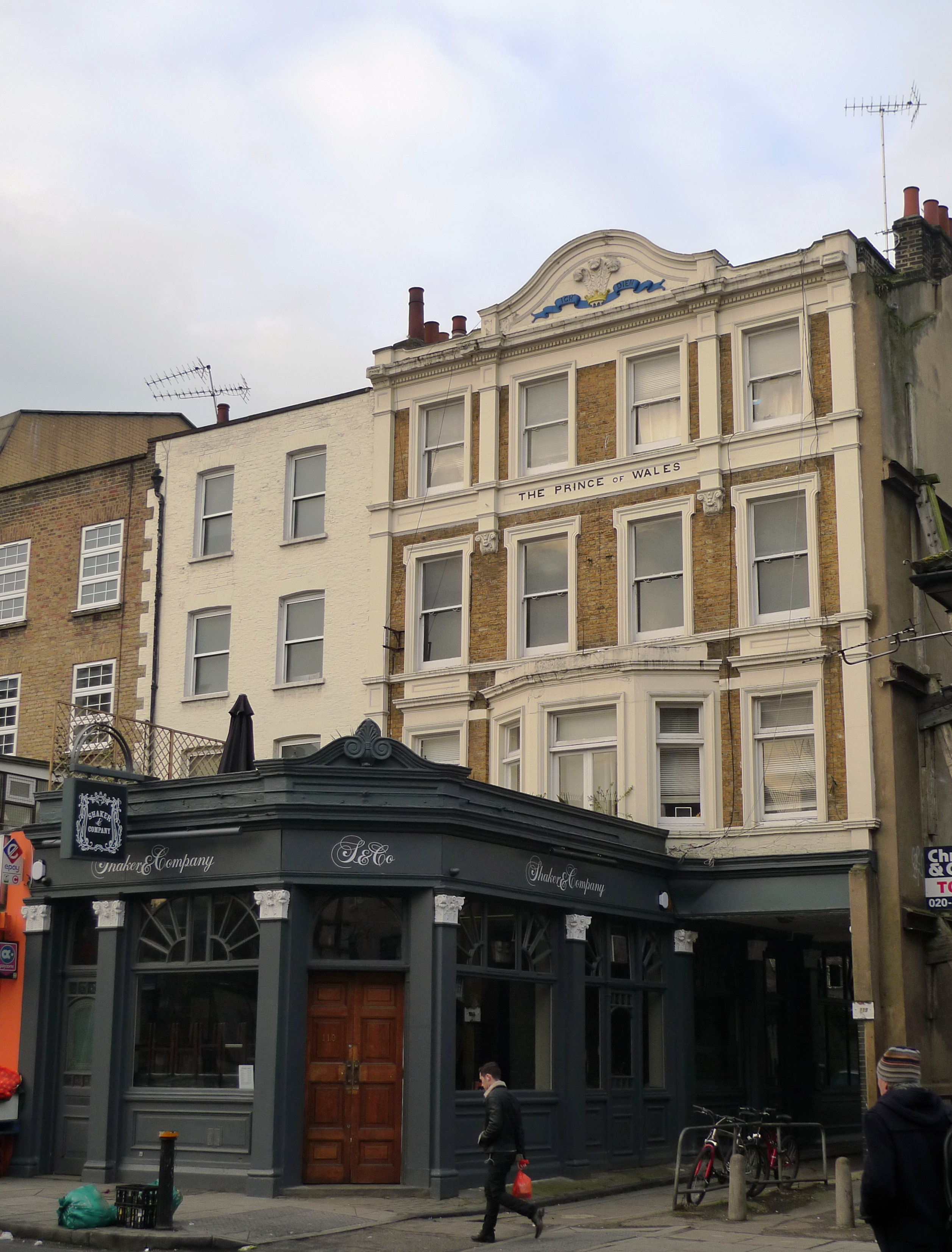 Along the busy Hampstead Road is this former pub, now a cocktail bar. (Photo of it as Positively 4th Street.) Address: 119 Hampstead Road. Former Name(s): Positively 4th Street; The Prince of Wales. Links: Randomness Guide to London (Positively 4th Street) Fancyapint Pubs Galore Beer in the Evening (Positively 4th Street) Dead Pubs (history)